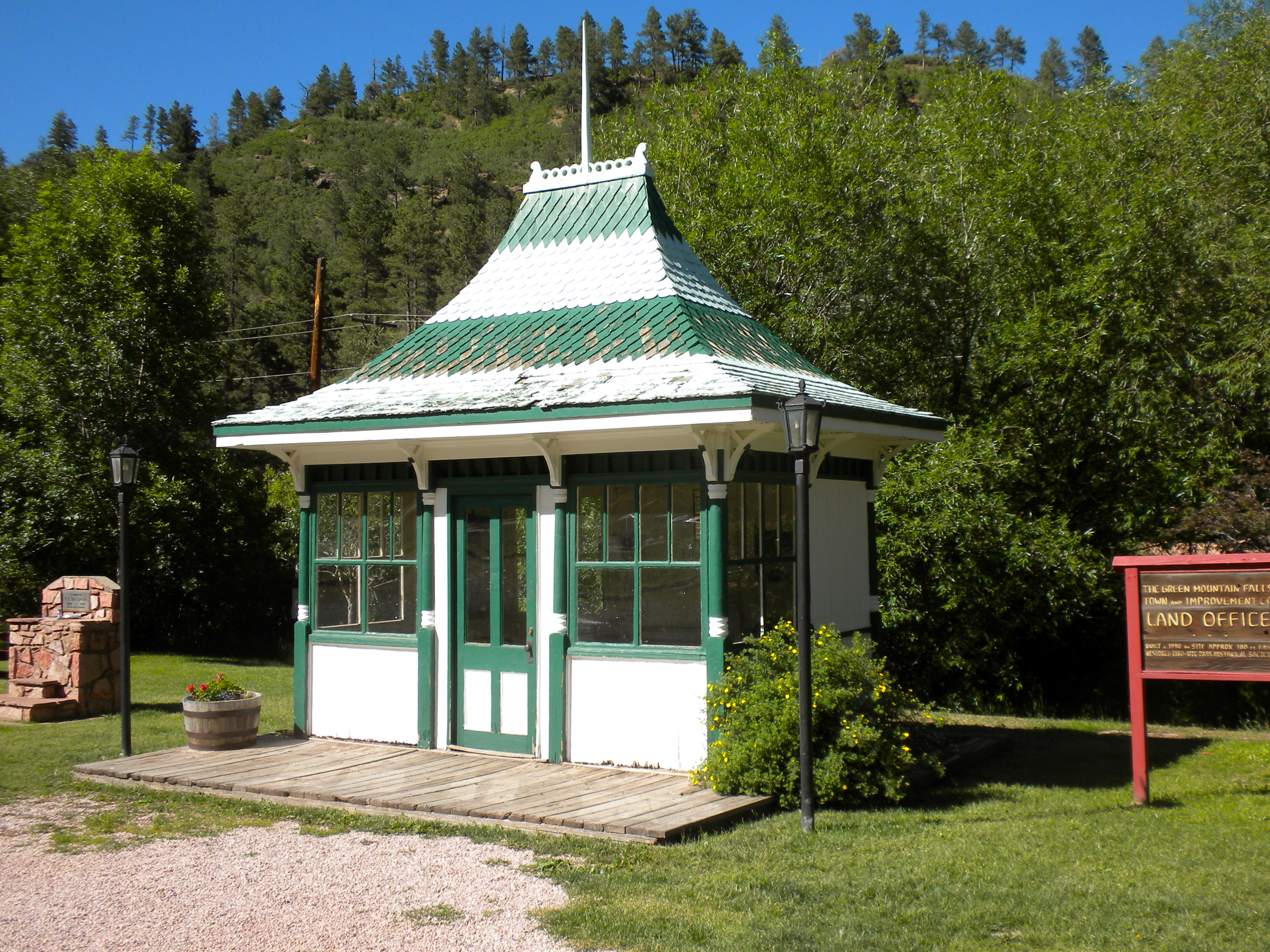 Green Mountain Falls landoffice in a park in Green Mountain Falls, Colorado